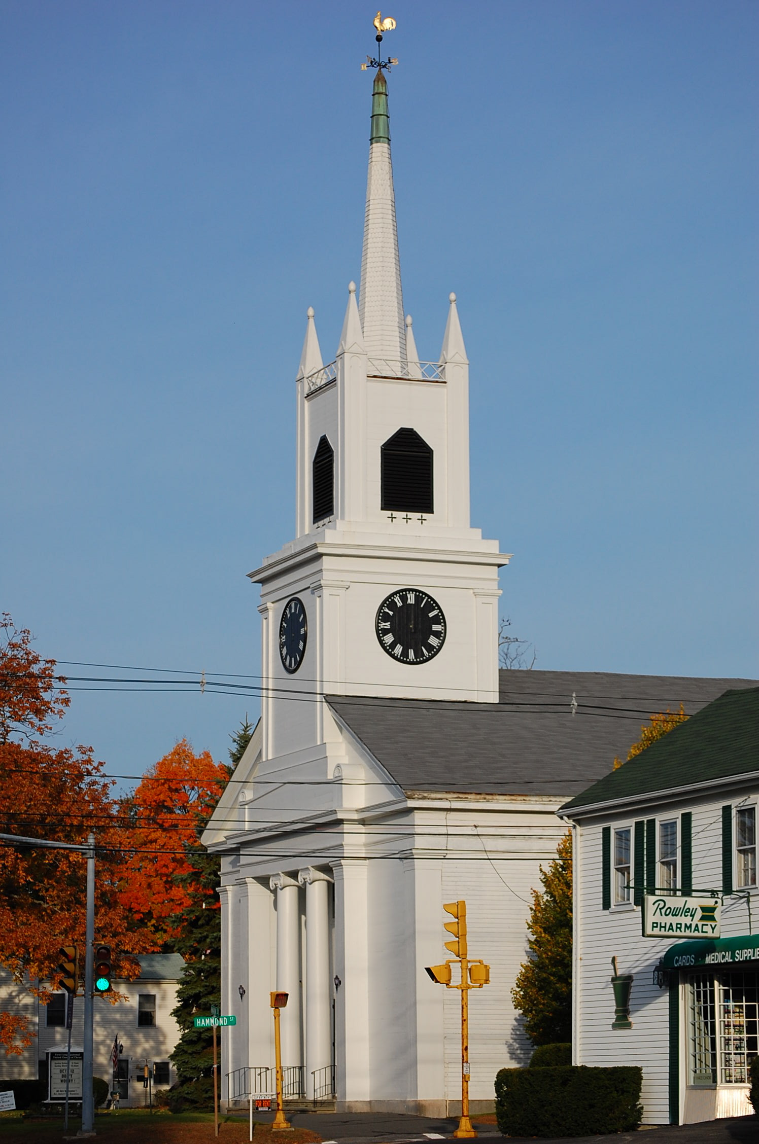 First Congregational Church and local pharmacy on Main Street, Rowley MA